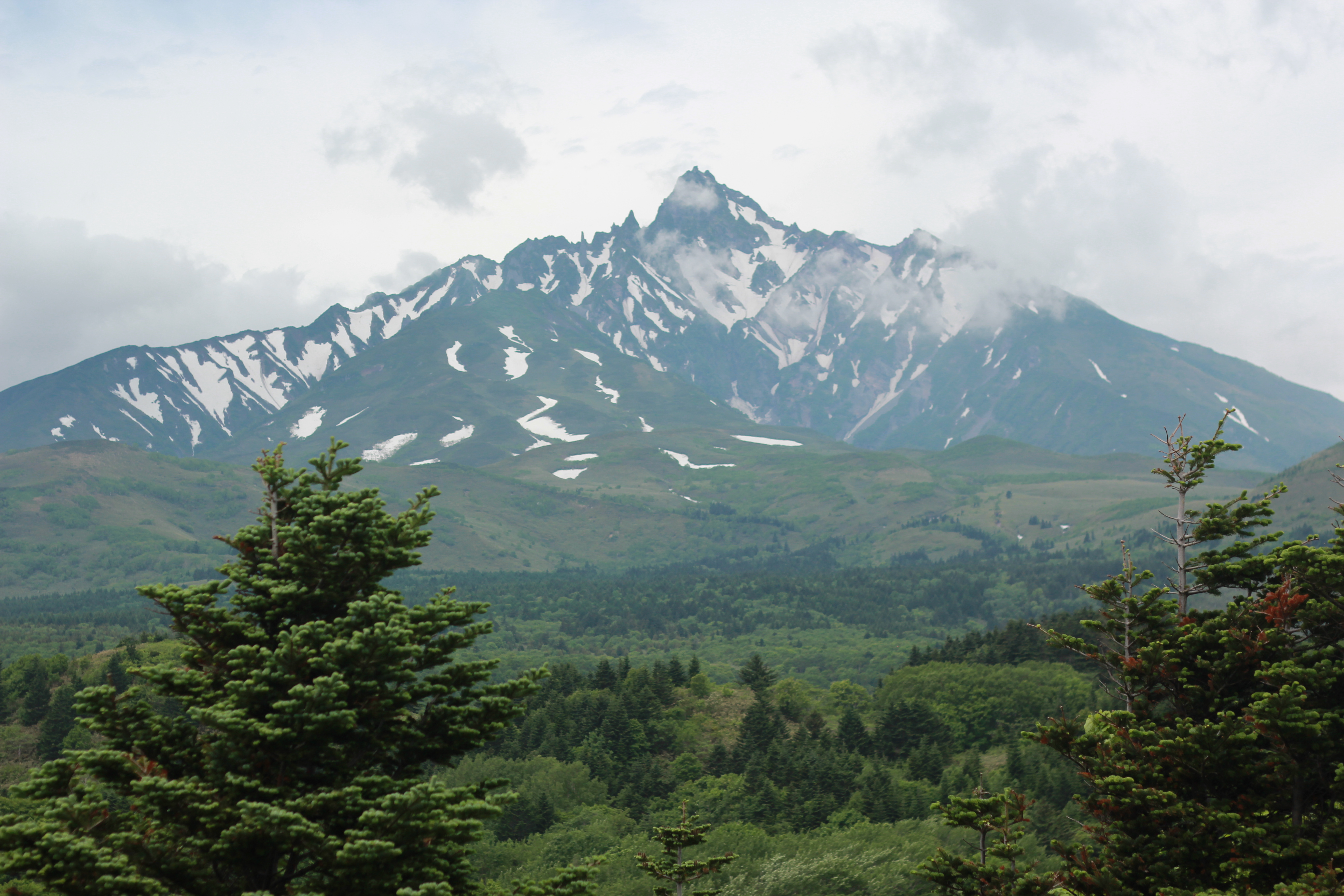 The volcano Mt. Rishiri, Hokkaido.